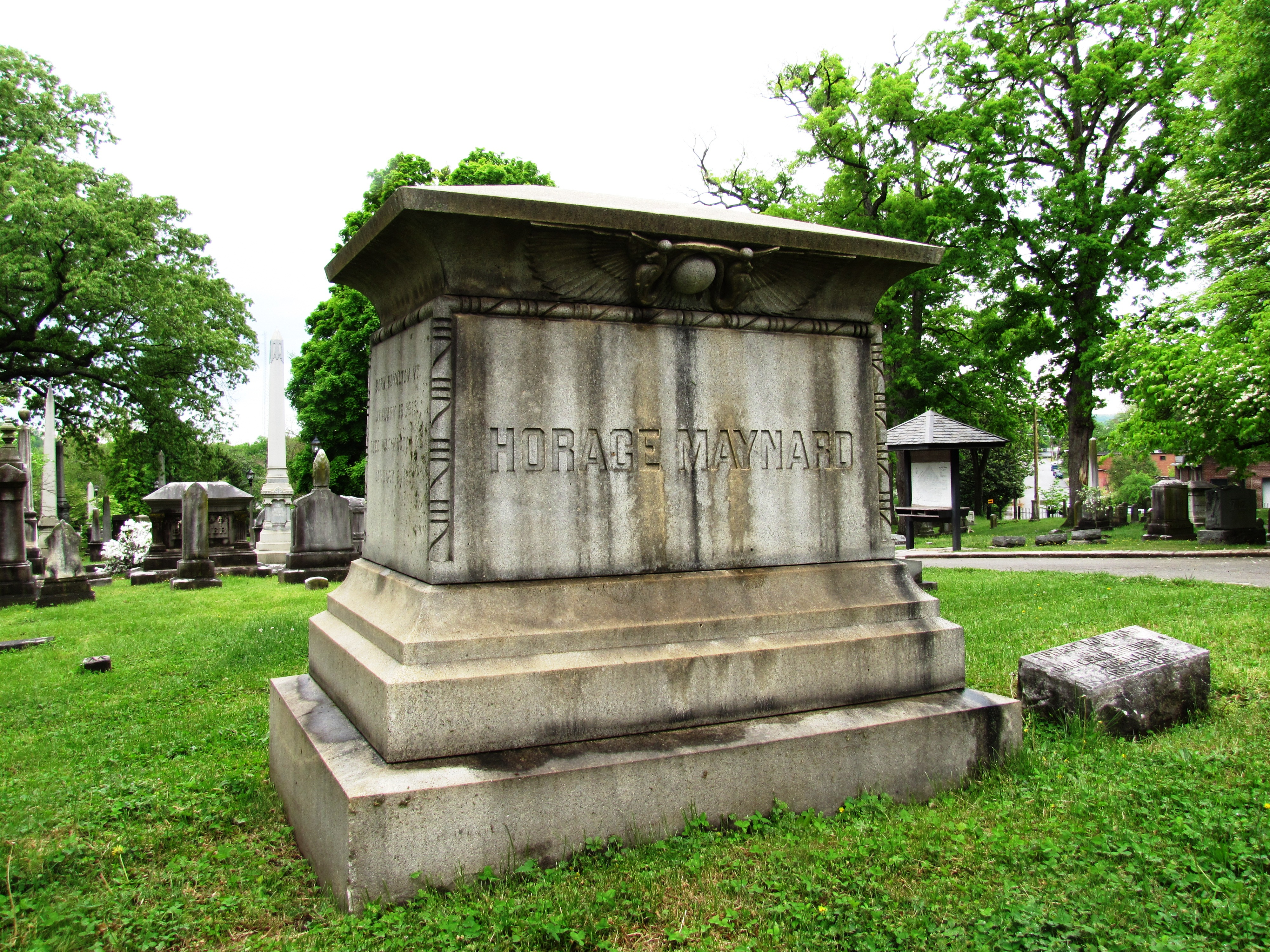 Monument marking the graves of Congressman and Postmaster General Horace Maynard (1814–1882) and family at Old Gray Cemetery in Knoxville, Tennessee, USA.